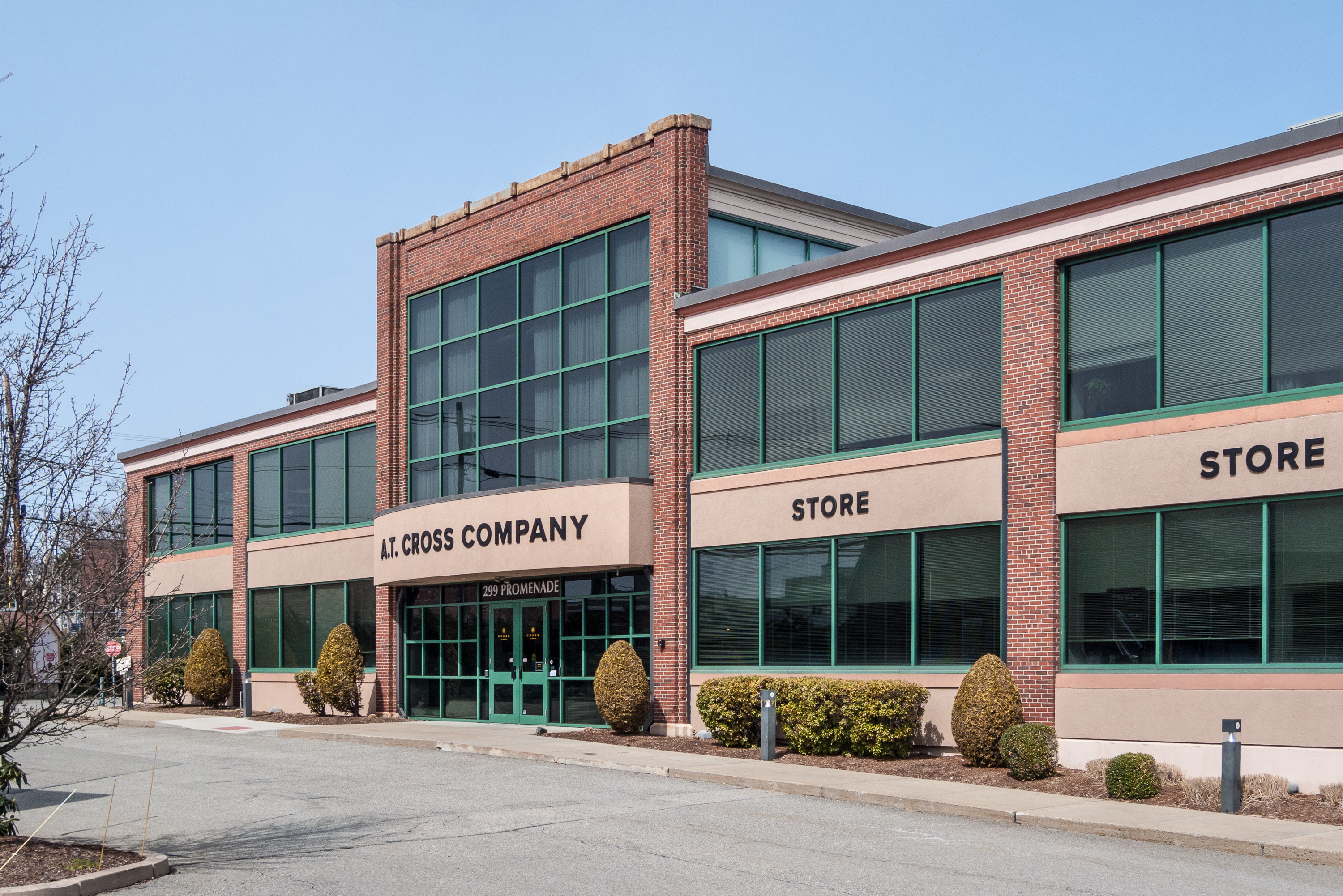 A. T. Cross Company headquarters, 299 Promenade Street, Providence, RI, USA